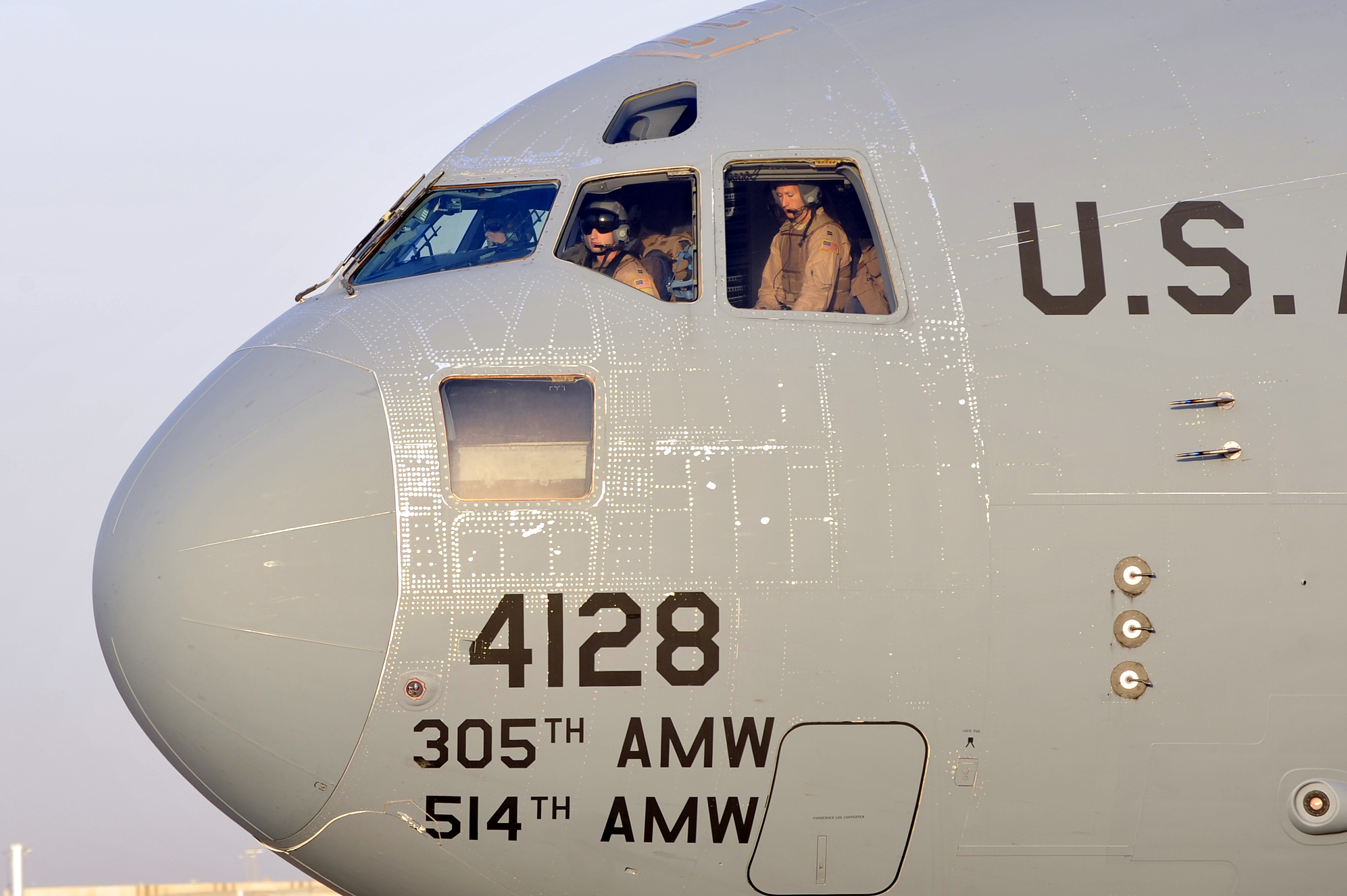 A U.S. Air Force C-17 Globemaster III aircraft, carrying Vice President Joe Biden, arrives at Sather Air Base, Iraq, Aug. 30, 2010. Biden took part in the United States Forces-Iraq change of command ceremony between Gen. Raymond Odierno and Lt. Gen. Lloyd Austin Sept. 1, 2010.